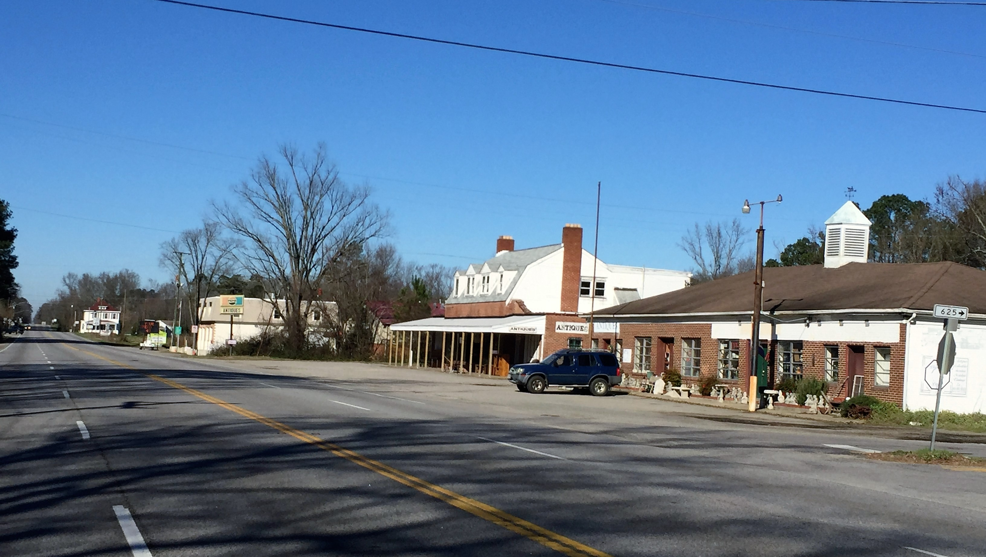 Disputanta, Virginia from US Route 460